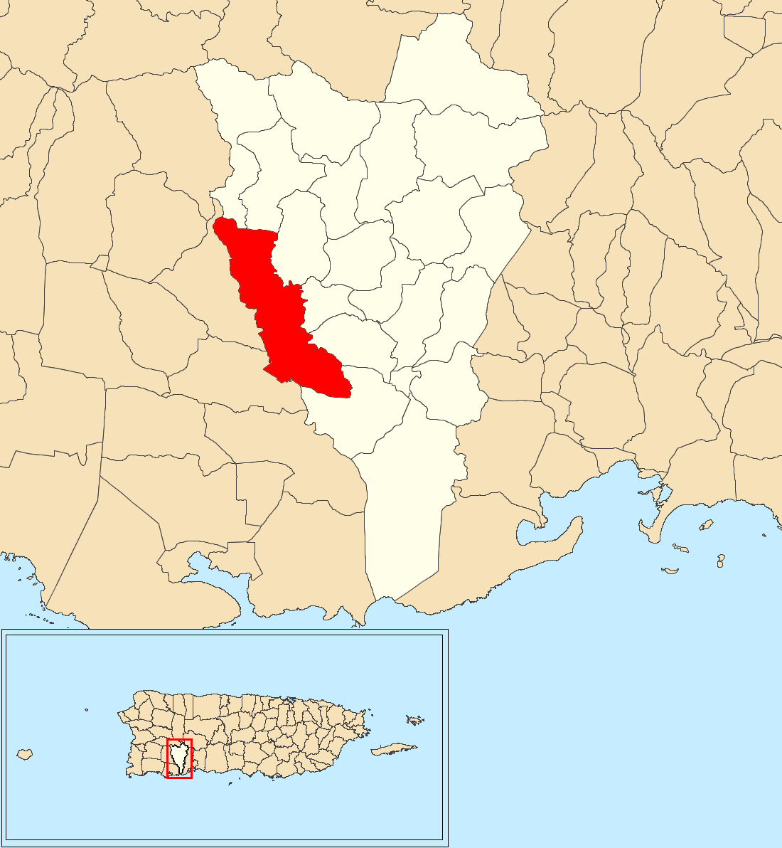 Susúa Alta, Yauco, Puerto Rico locator map